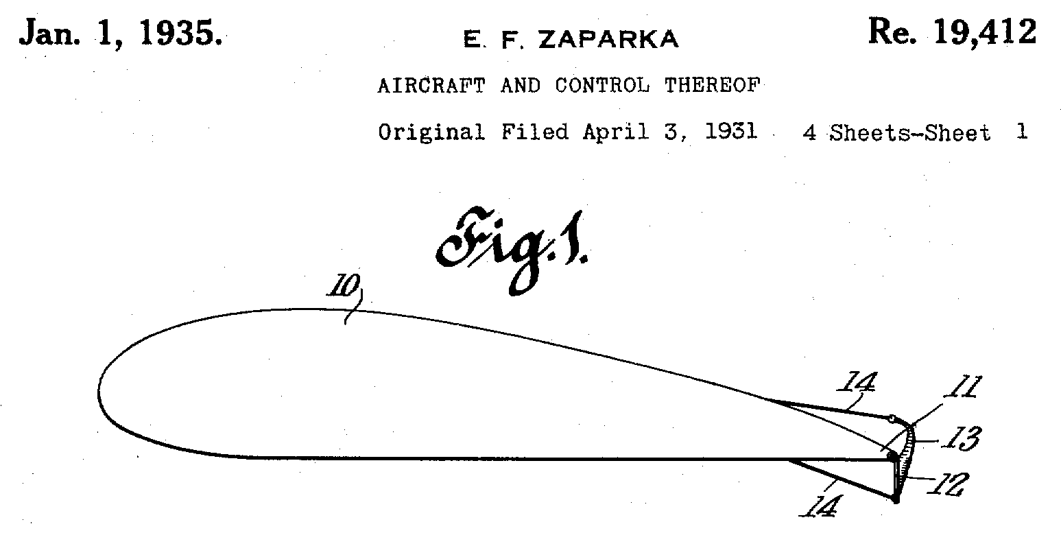 Figure-1 from U.S. Patent Re19,412, "Aircraft and Control Thereof," dated January 1, 1935, E.F. Zaparka, inventor. This patent describes, and this image shows, a movable "microflap" similar to the fixed Gurney flap independently discovered and first used by Dan Gurney in 1971.